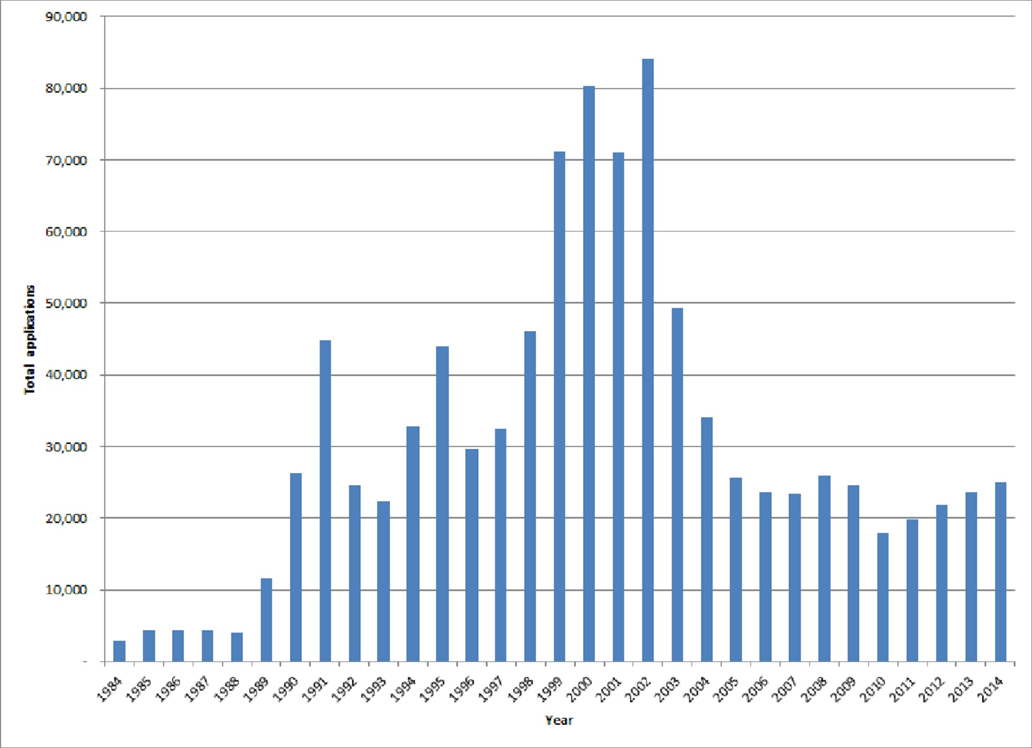 I created this from data at [1]